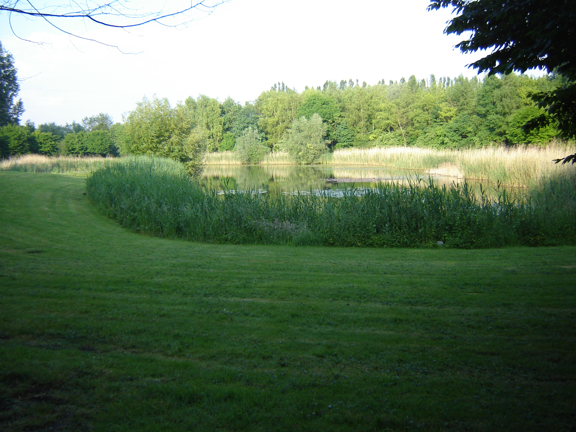 Liedermeerspark in Merelbeke. Merelbeke, East Flanders, Belgium